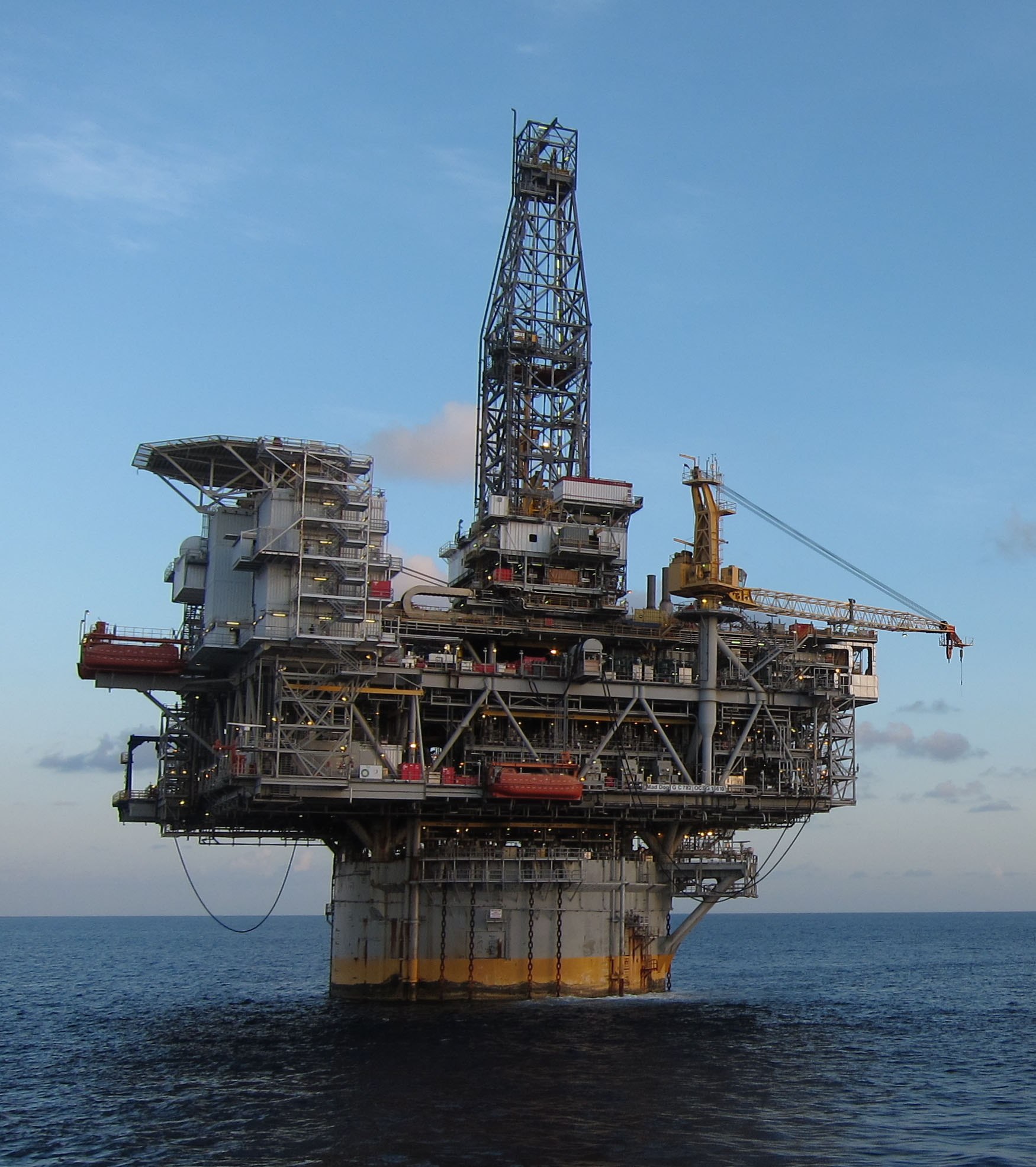 Picture of the Mad Dog spar, located in the Gulf of Mexico. Taken in July 2012. To be included in the "Spar" article.